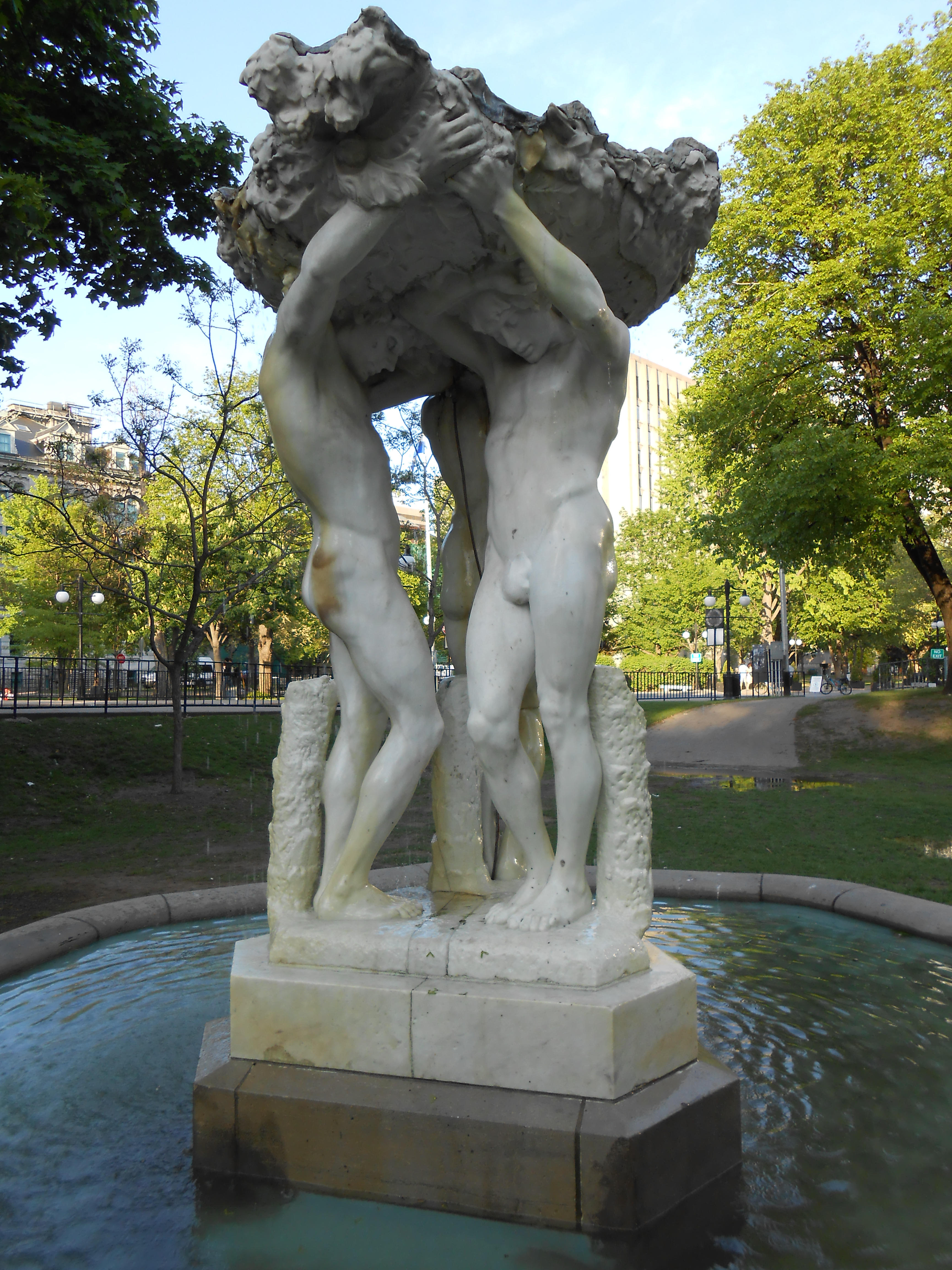 The Three Graces (1931), by Gertrude Vanderbilt Whitney, McGill University, main entrance, Sherbrooke Street West, Montreal